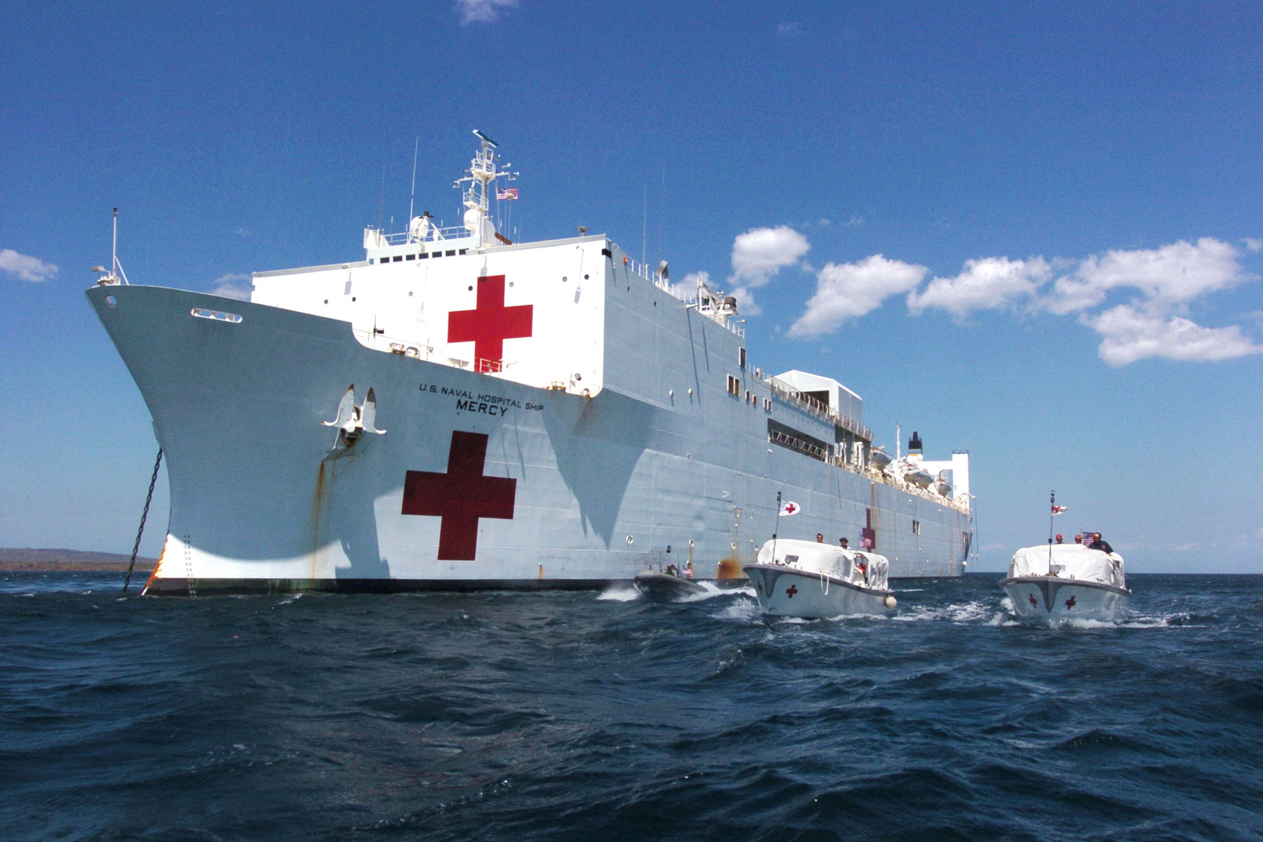 The hospital ship USNS Mercy (T AH 19) moors off the coast of the island of Kupang in West Timor, Indonesia, as Mercy's two transport boats shuttle patients and crew to and from shore on Aug. 21, 2006. The Mercy is in the fourth month of a five-month humanitarian and civic assistance deployment to South and Southeast Asia.